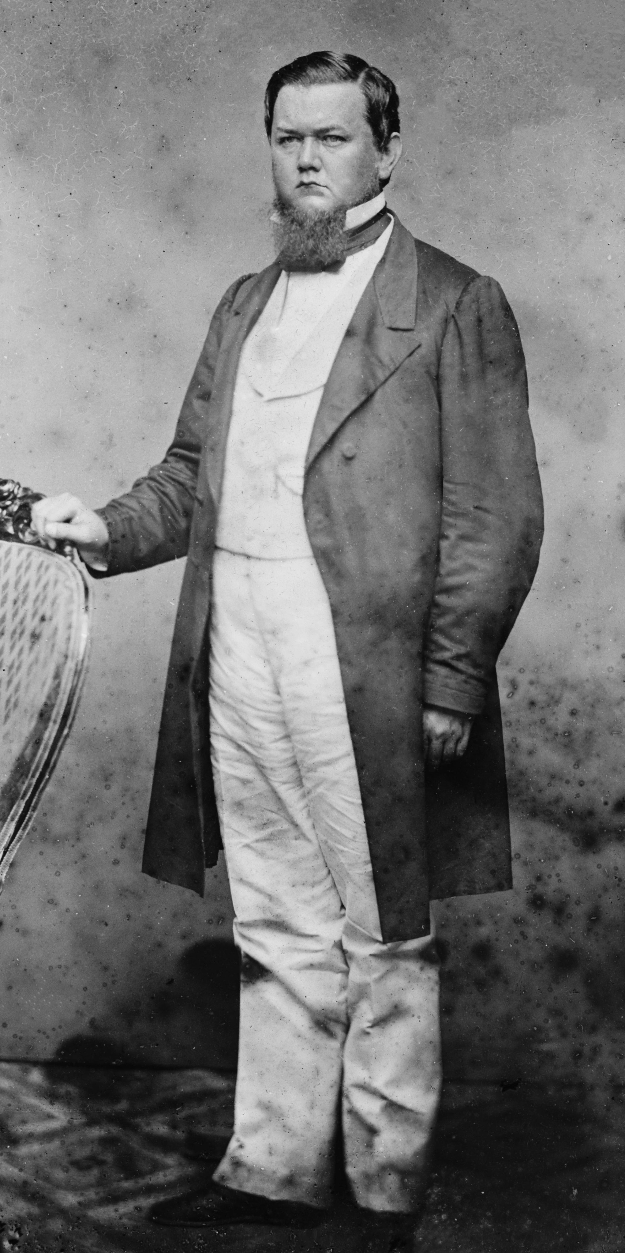 Henry Cornelius Burnett (October 5, 1825 – October 1, 1866) represented the state of Kentucky in the U. S. House of Representatives and then in the Confederate Senate during the American Civil War. Library of Congress description: "Hon. H. C. Burnett of Ky."